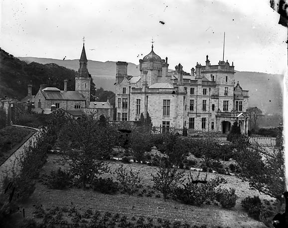 1 negative : glass, wet collodion, b&w ; 10 x 12.5 cm.